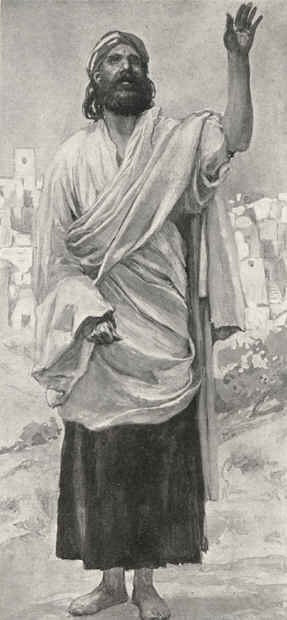 Пророк Осия (The Prophet Hosea)